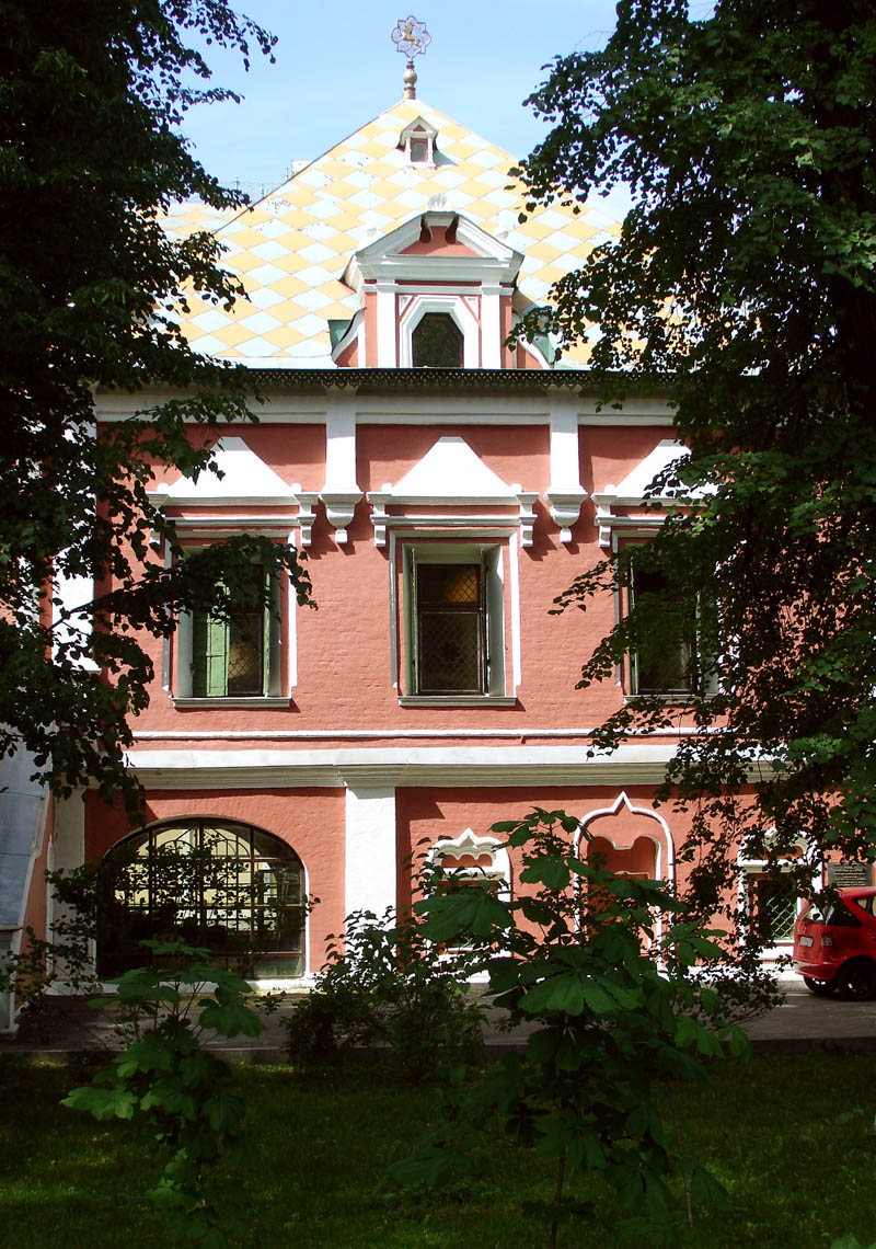 Volkov-Yysupov Palace in Bolshoy Kharitonyevsky Lane, Moscow.